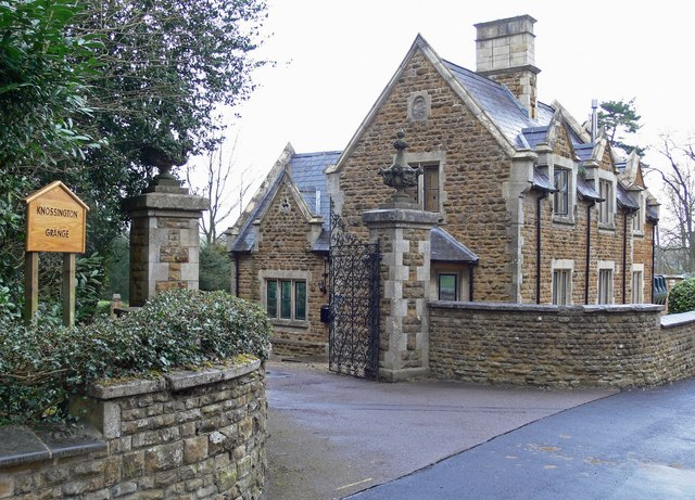 Entrance to Knossington Grange On Somerby Road in the village of Knossington.